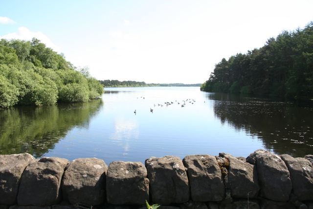 Colt Crag Reservoir With wall and geese.